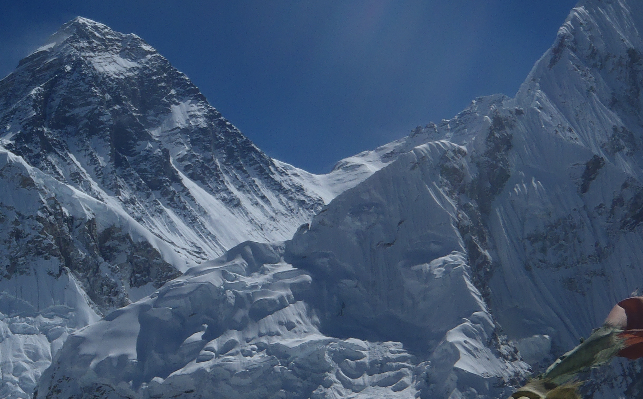 Mt Everest